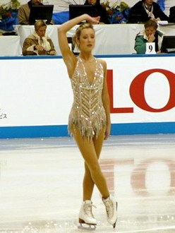 Jennifer Kirk at the 2003 NHK Trophy.